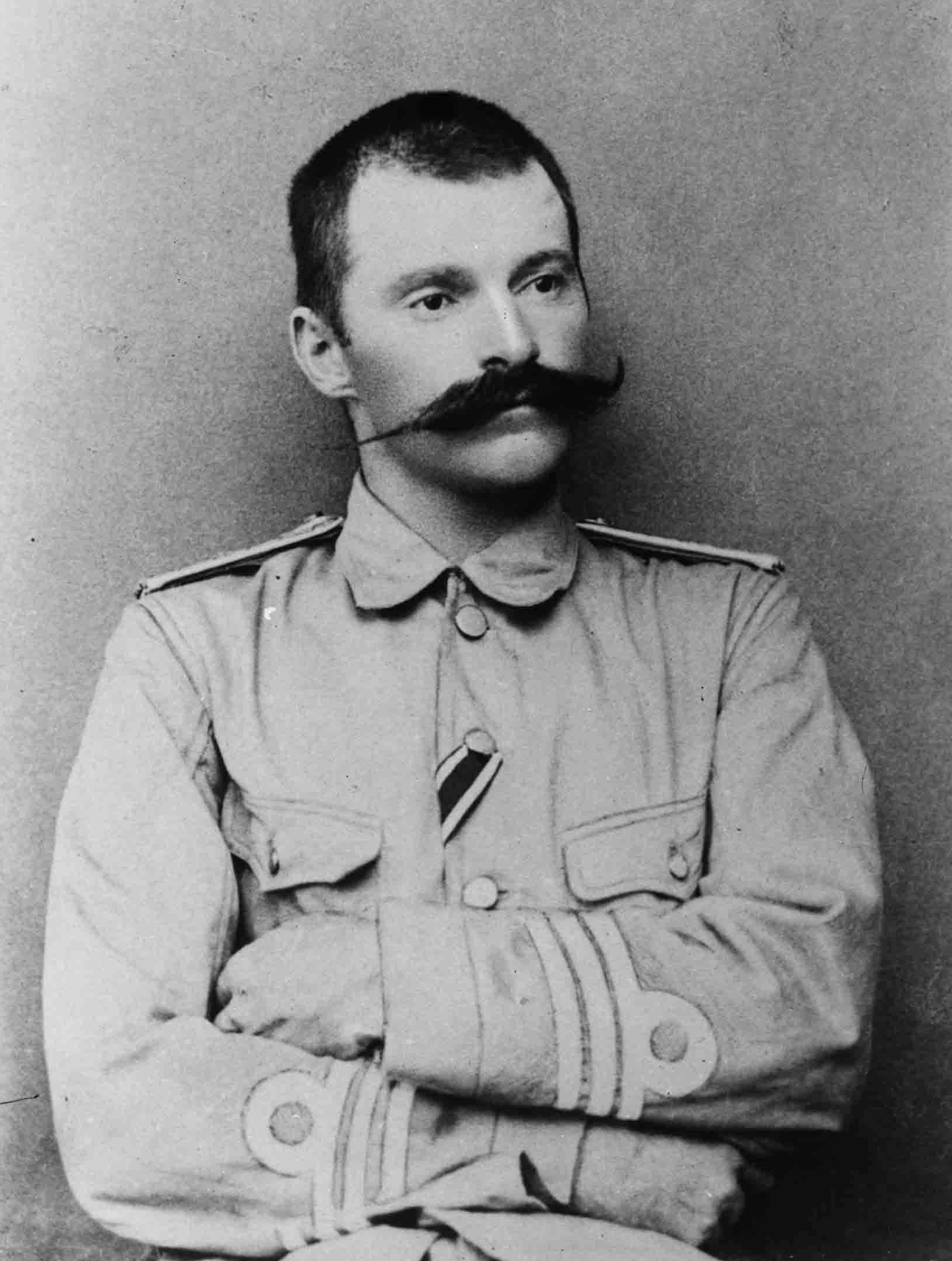 Rochus Schmidt